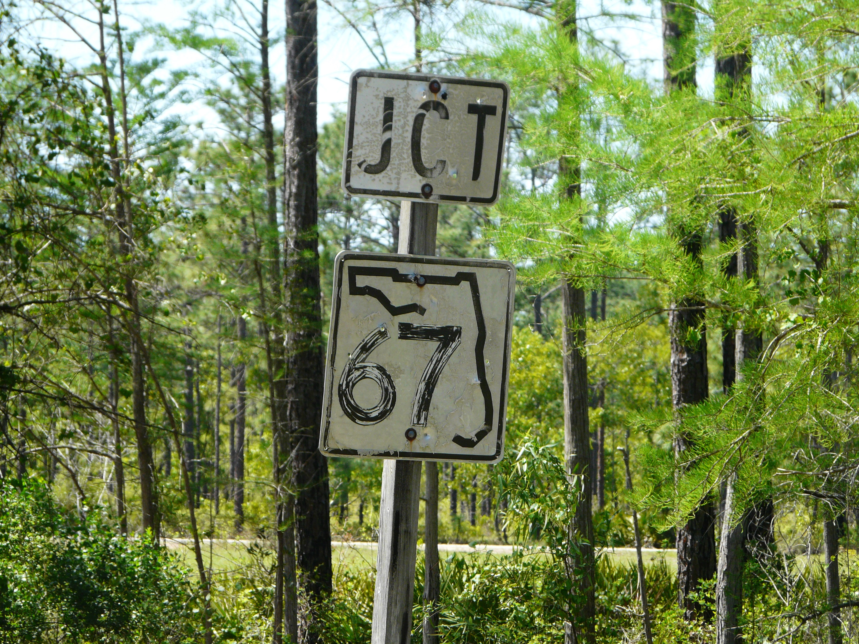 Old Junction sign approaching Florida State Road 67 - now Liberty County Road 67 - on Forest Highway 13 westbound in the Apalachicola National Forest in Liberty County, Florida. Note odd "hand-painted" wear on numbers. Note that this is the same sign featured in File:JCT 67 (14846438494).jpg from 2013.